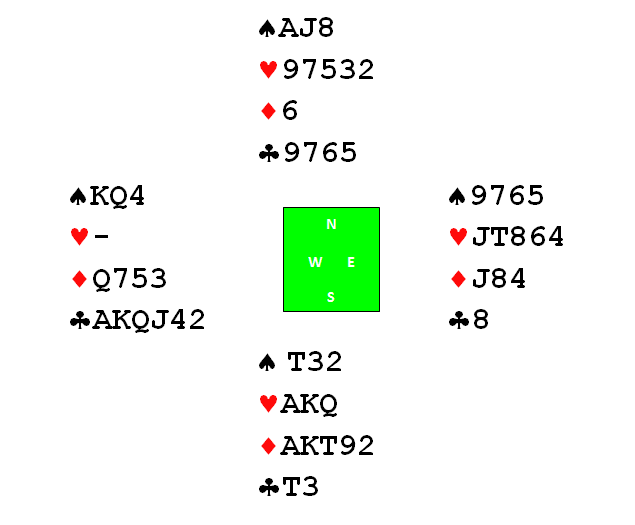 Pseudo Winner Squeeze in bridge